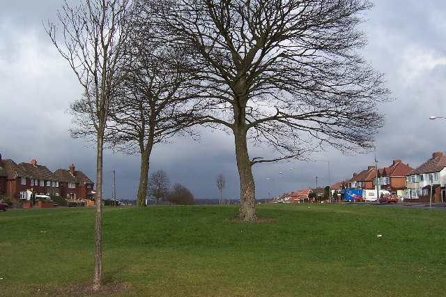 The King's Standing. Barely noticeable as you drive by on the B4138, this low hummock marks the place where King Charles I is supposed to have stood and contemplated his next move in his fight against Cromwell.